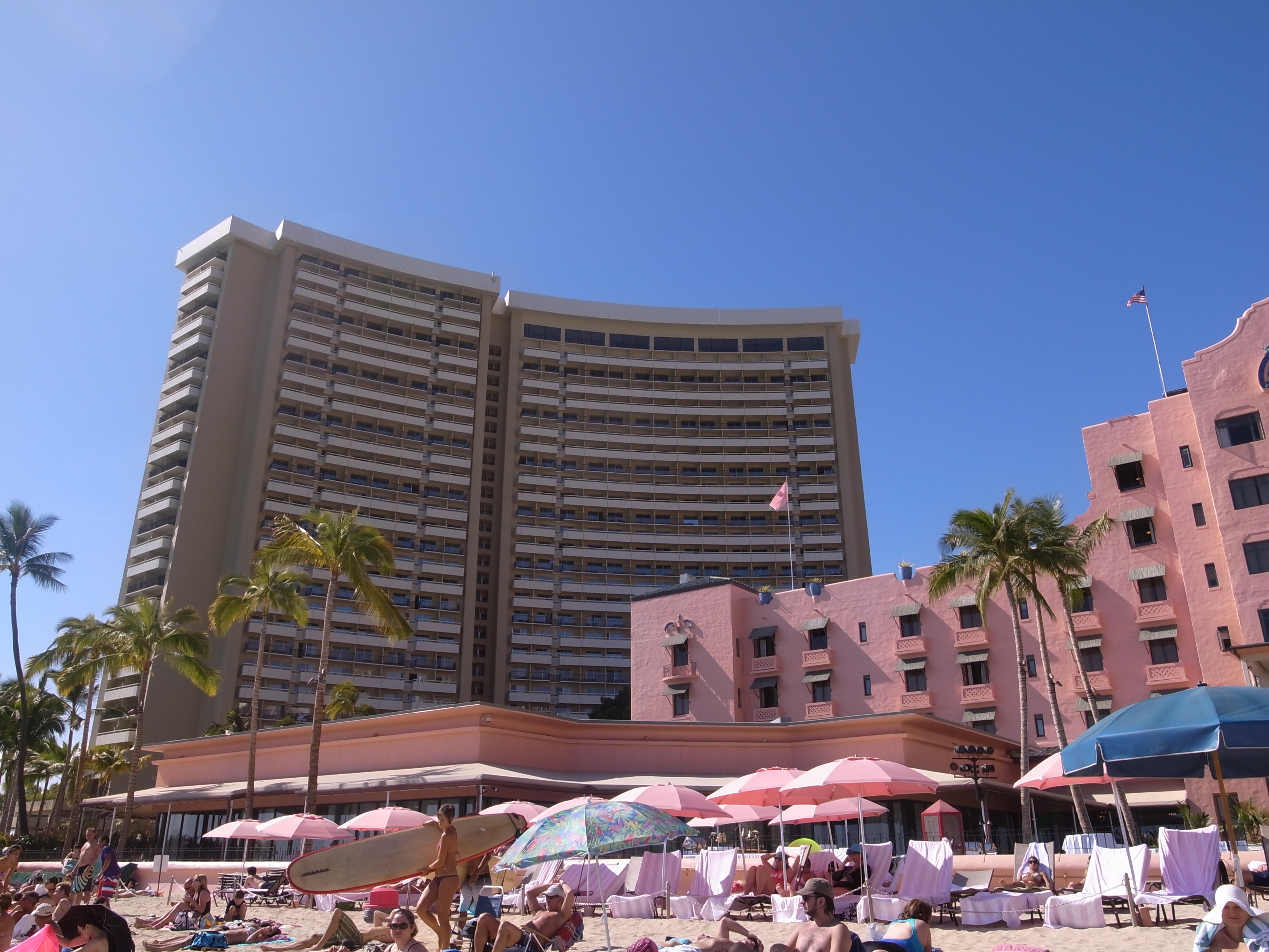 sheraton Waikiki from Waikiki beach